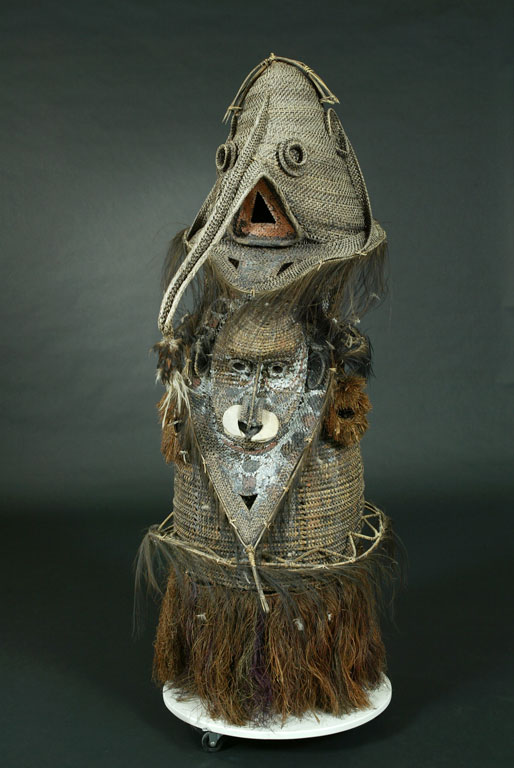 A Male spirit dance mask in the permanent collection of The Children’s Museum of Indianapolis